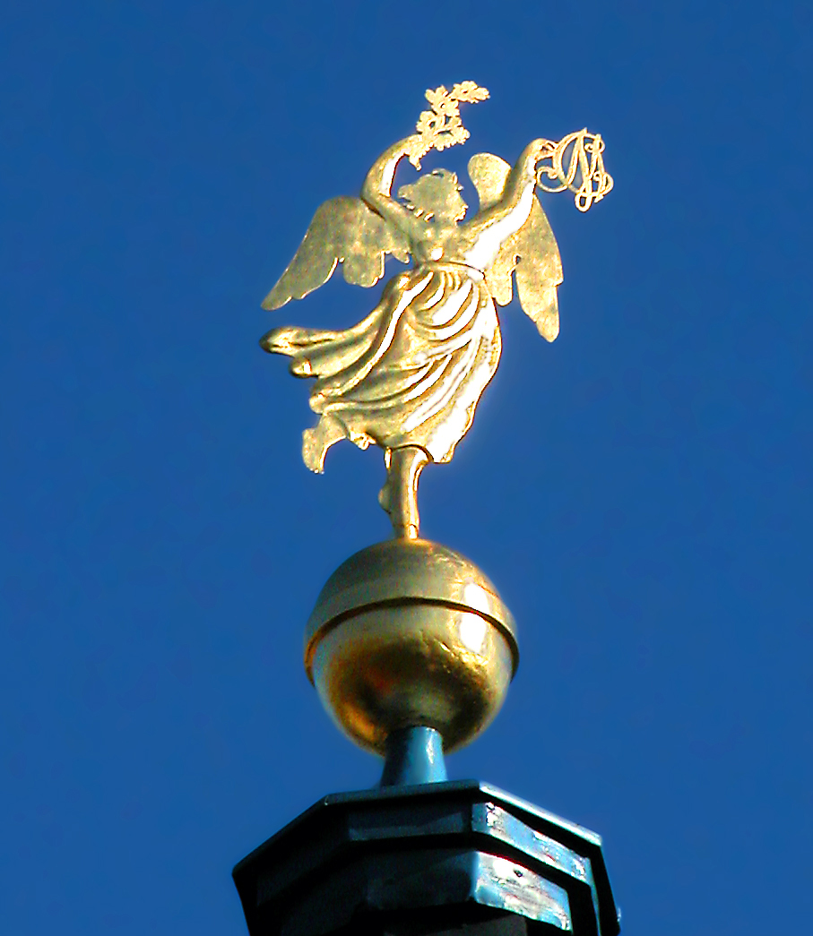 23.10.2008 01445 Radebeul-Oberlößnitz, Weinbergstraße 10: Meinholds Weinberg. Das Turmhaus ist eine um 1750 entstandene, 1792 vom Hofbuchdrucker Carl Christian Meinhold erworbene Zweiflügelanlage. Der die Turmspitze bekrönende Engel trägt Meinolds Monogramm C. M. [DSCN34900.TIF]20081023455DR.JPG(c)Blobelt